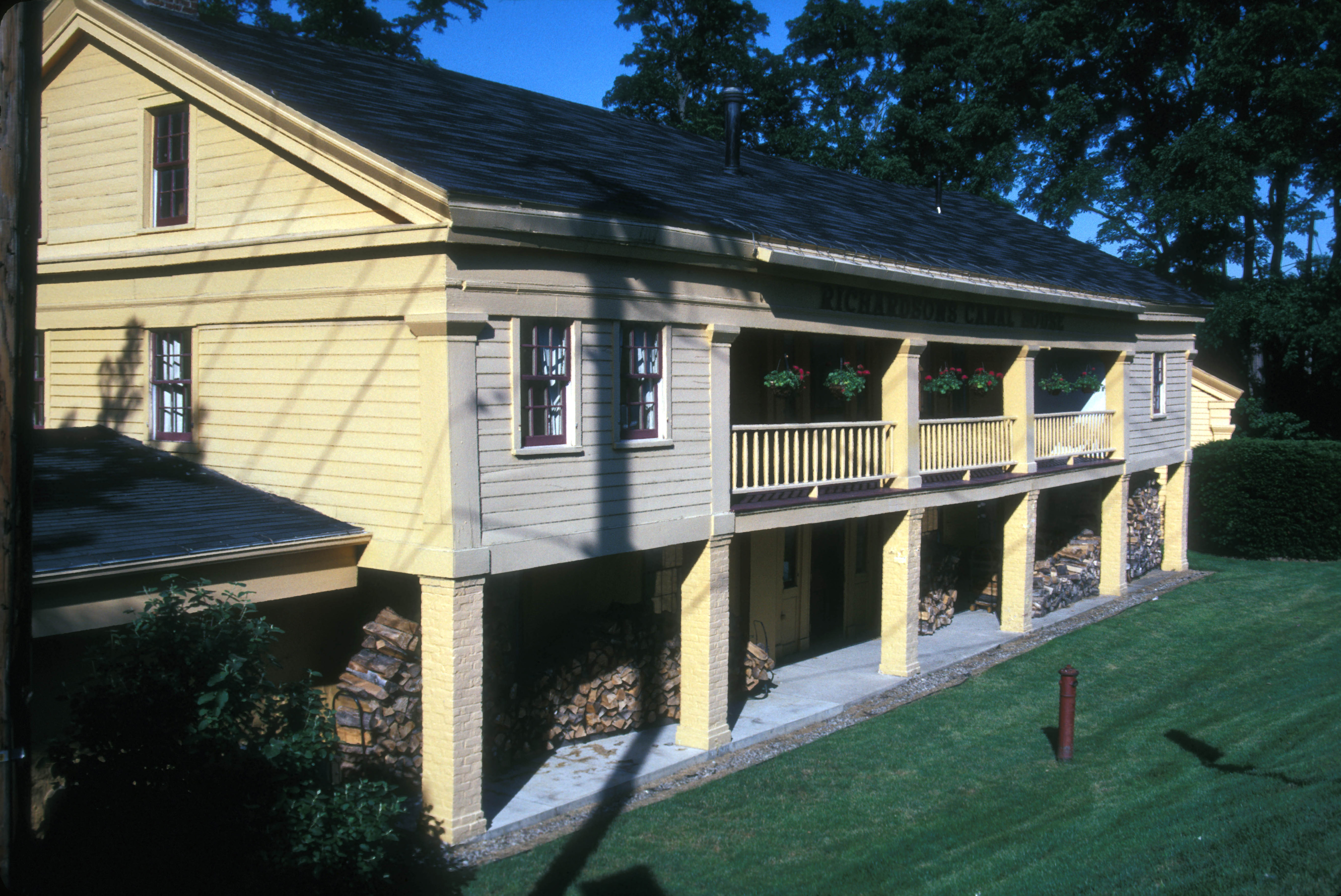 INN LOCATED AT THE EASTERN END OF THE GRAND EMBANKMENT WHICH WAS AN ARTIFICIAL BANK BUILT TO TRAVERSE THE IRONDEQUOIT VALLEY. IT IS THE OLDEST INN STILL ON THE ERIE CANAL.